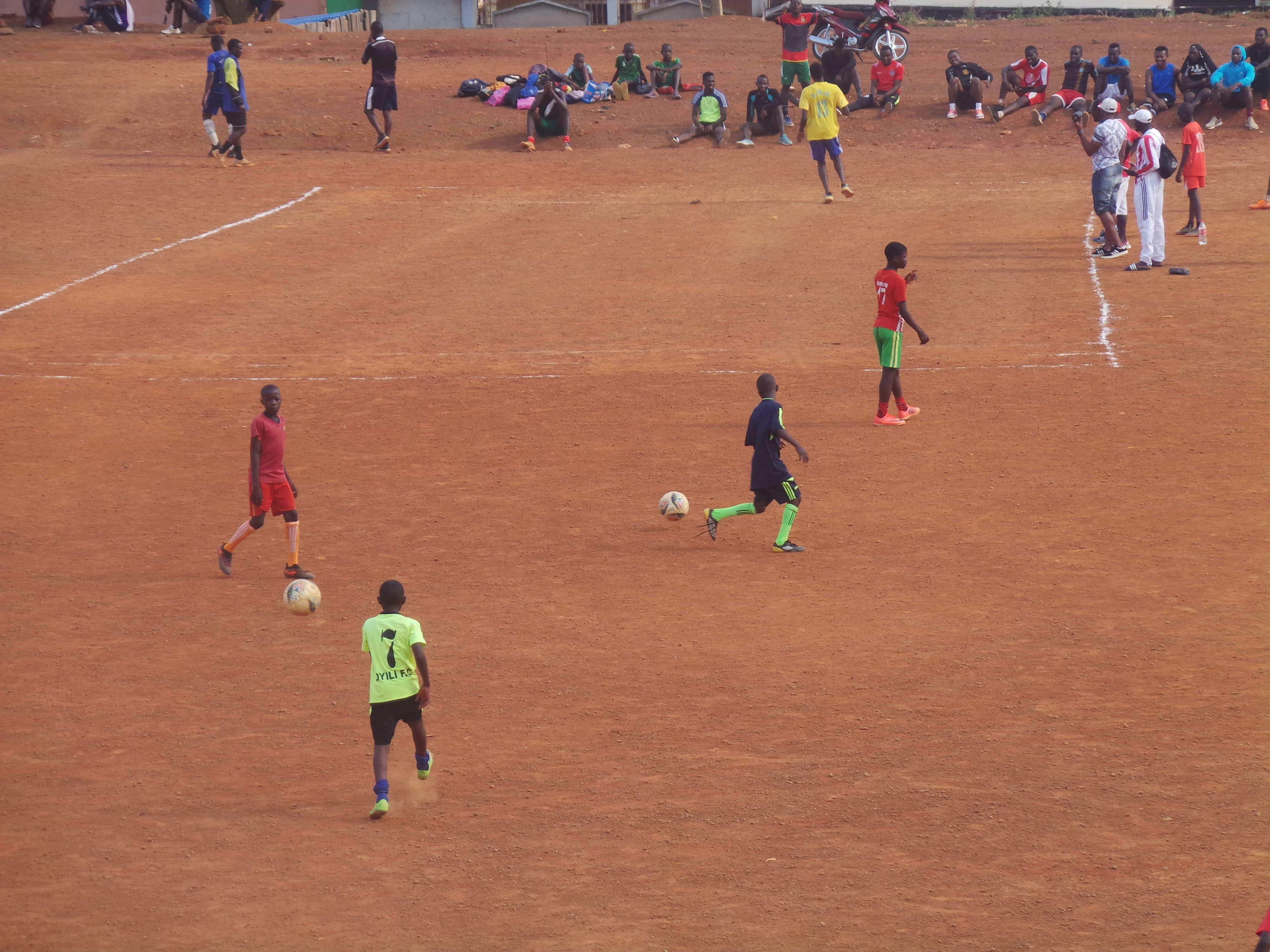 This is an image with the theme "Play" from: Cameroon